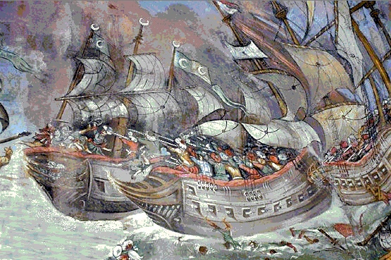 Naval confrontation at Lepanto (Ottoman Navy) against the Holy See as depicted in the chapel Couvent des Trinitaires in Saint-Étienne-de-Tinée, Cote D'Azur, France.